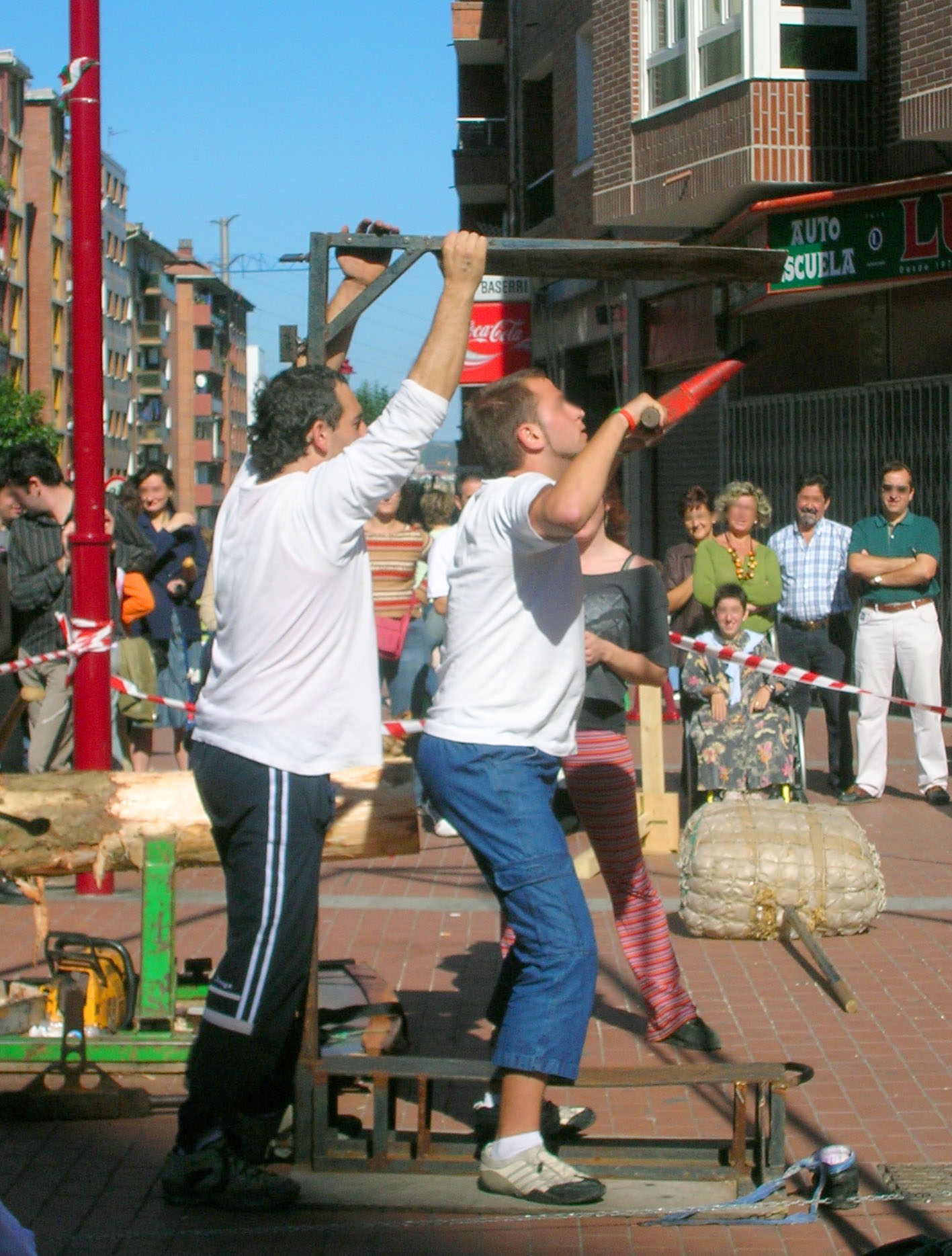 Levantamiento de yunque. Fiestas de Santa Teresa, Barakaldo.